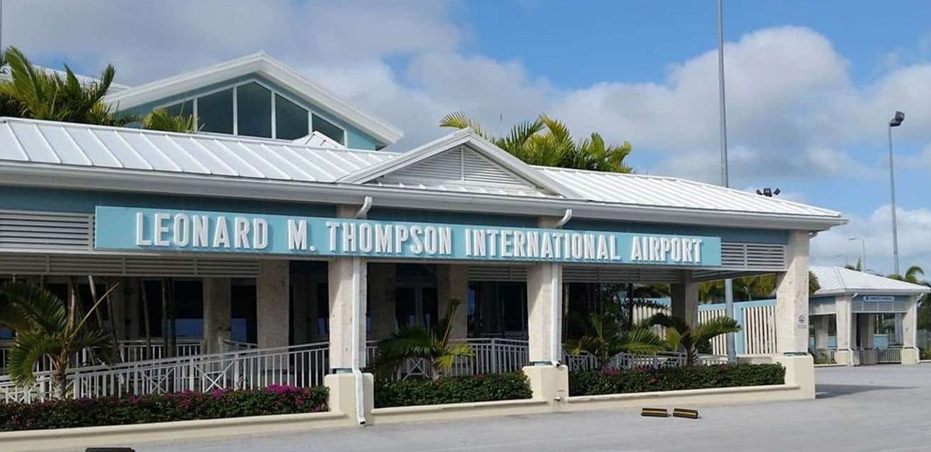 New Airport